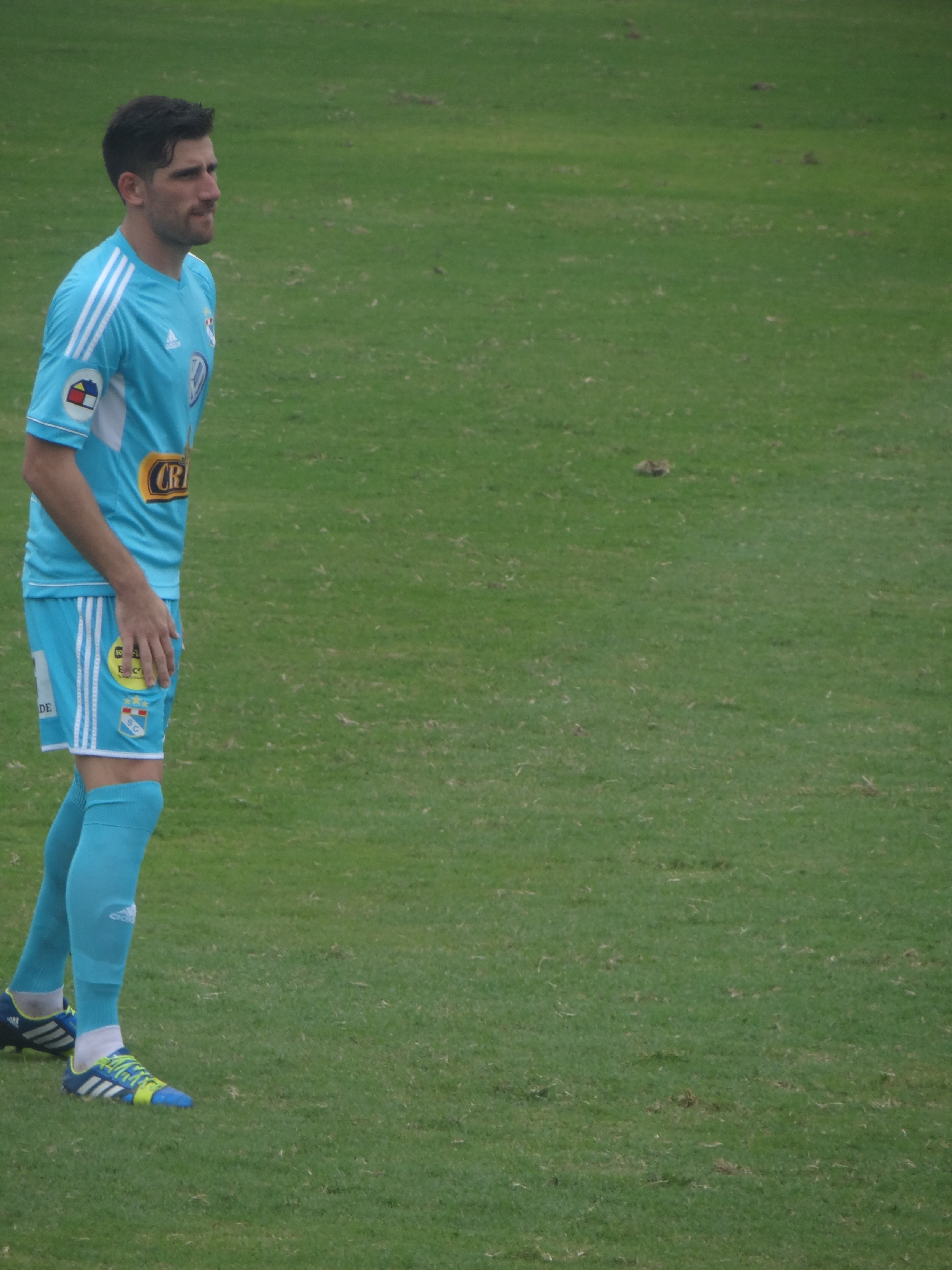 Nicolás Ayr, Sporting Cristal footballer for season 2013